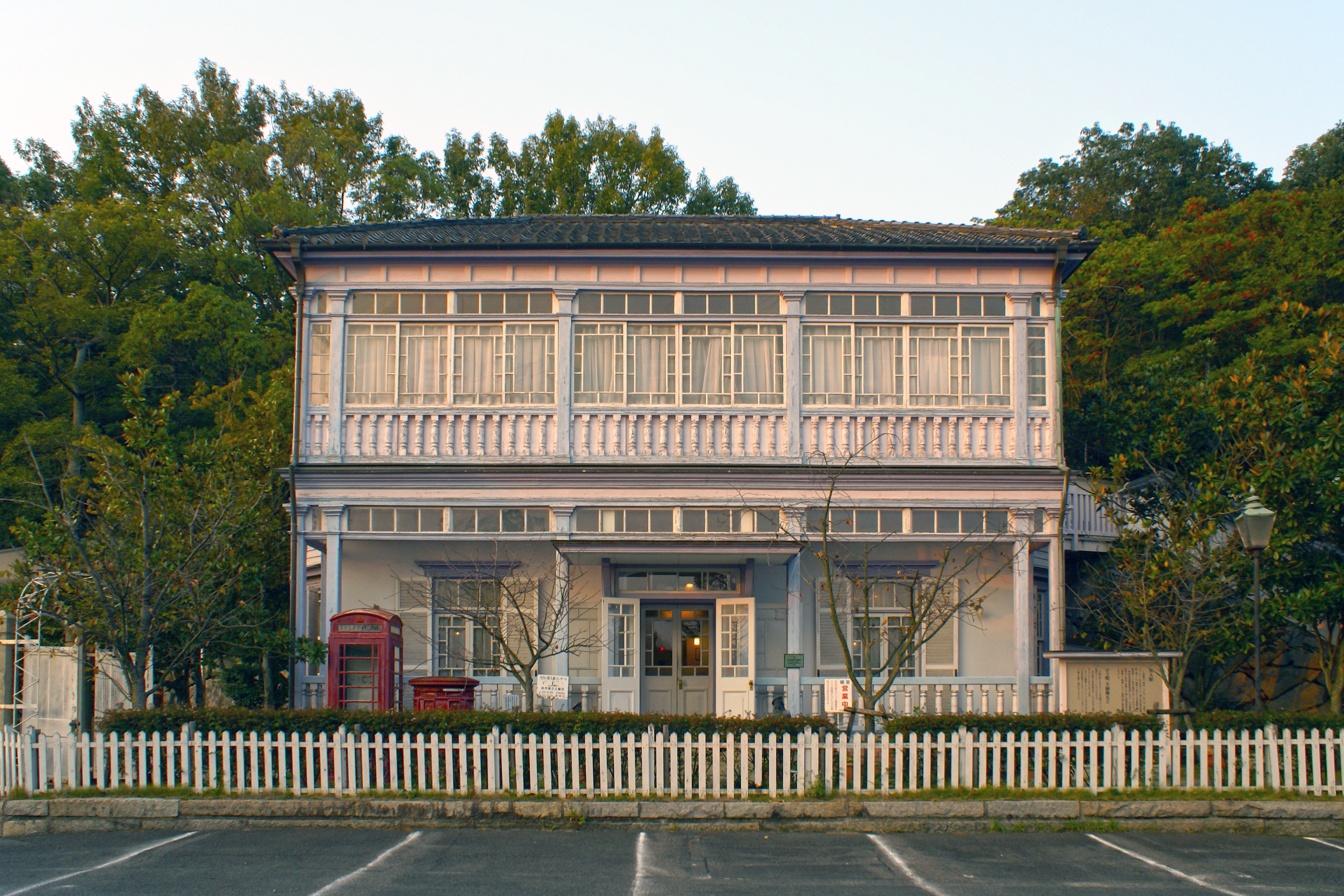 Old Down House of Shikoku Mura in Takamatsu, Kagawa prefecture, Japan